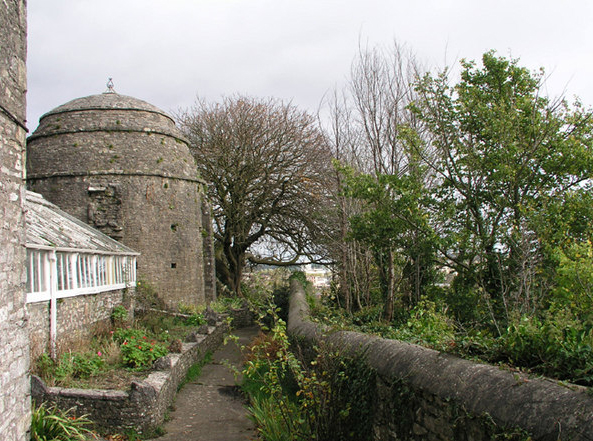 13176 72/C/40 (8) Grade I Barry, Wales